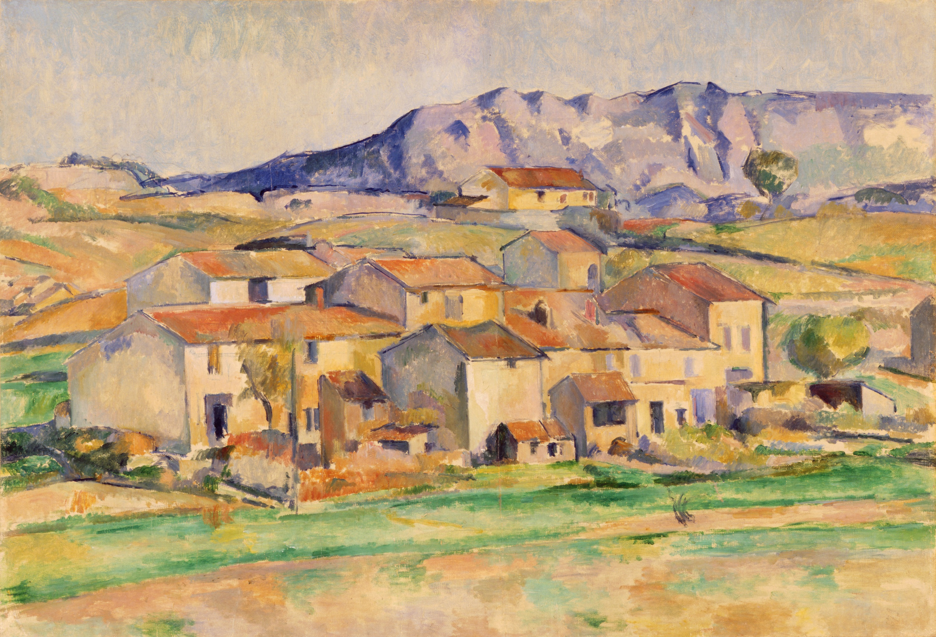 Mont Sainte-Victoire and Hamlet Near Gardanne